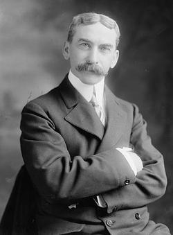 C.1890 sitting portrait of Henry L Wilson while in business in Spokane, Washington, a copy of which may also be found in the Library of Congress.